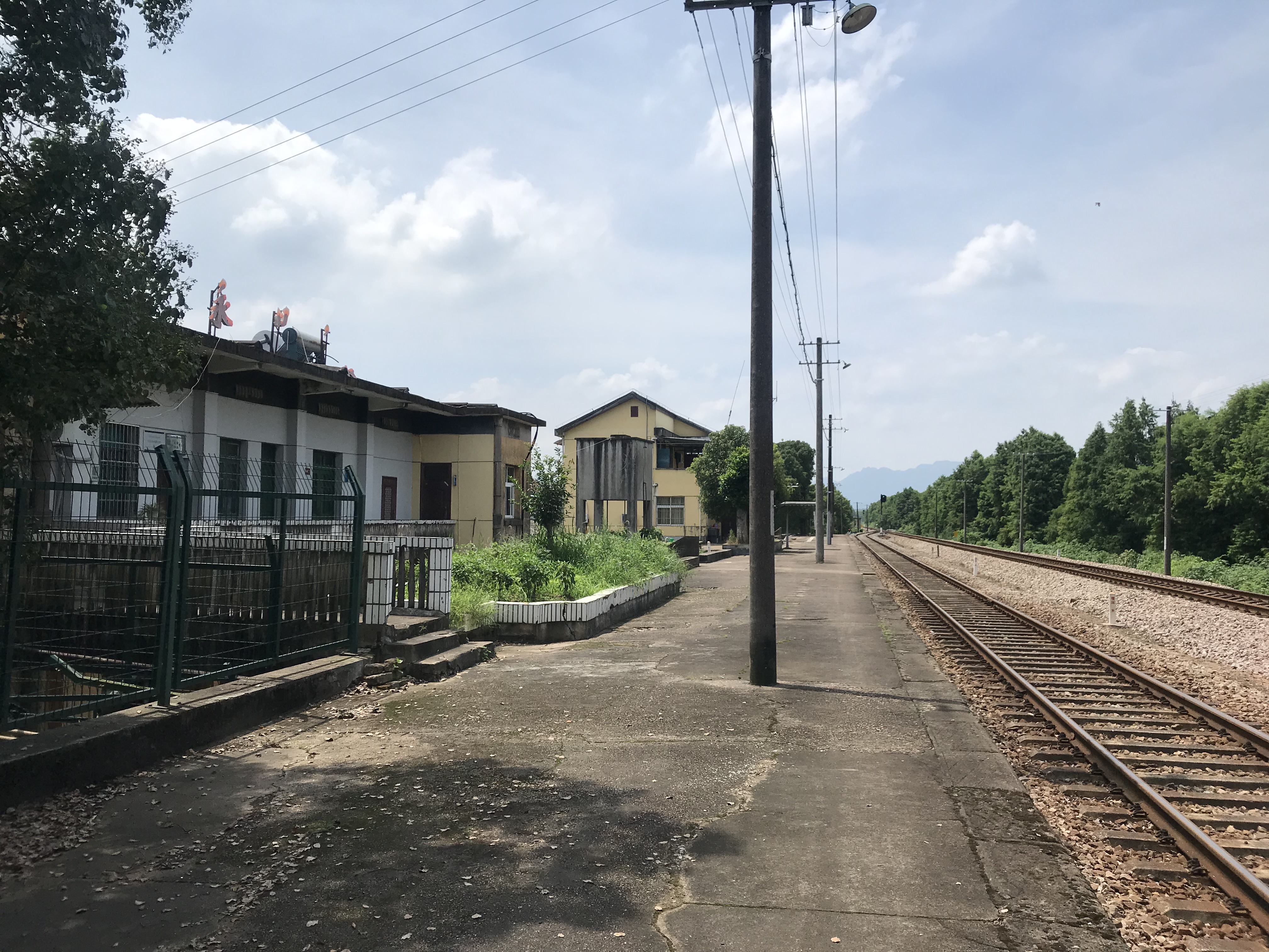 201907 Yongchang Railway Station Building and Platform